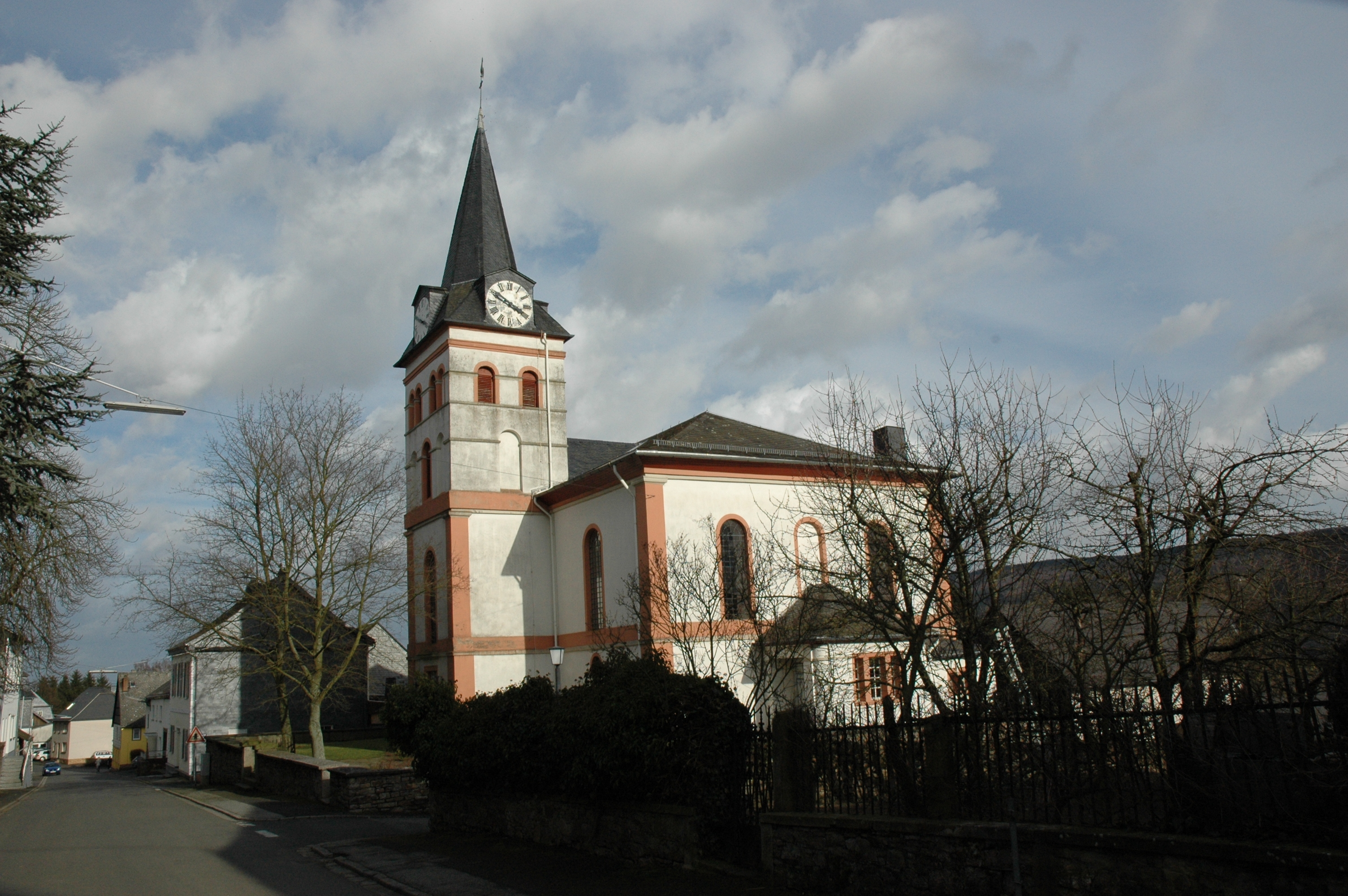 Ellern, a village in the Hunsrück landscape, Germany.